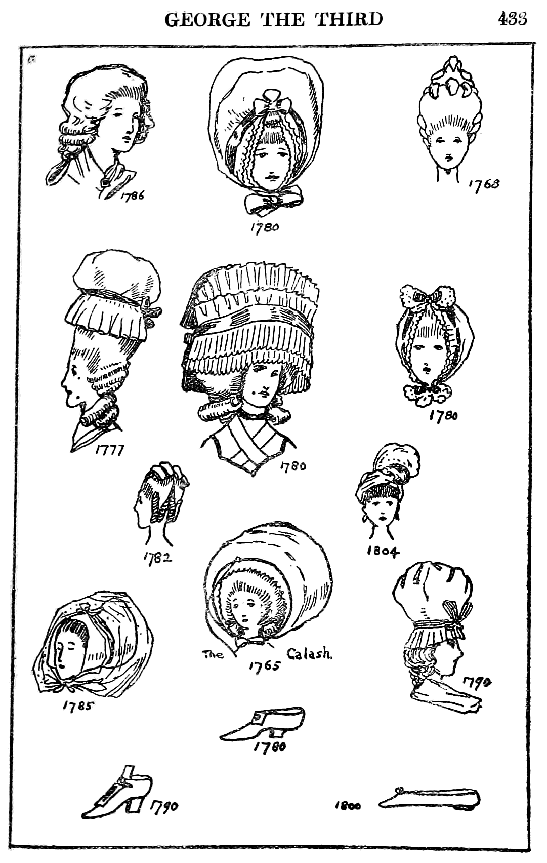 Women's headdresses and shoes from the second half of the eighteenth century and the first few years of the 19th century, as shown in an illustration from "English Costume" by Dion Clayton Calthrop (1906).